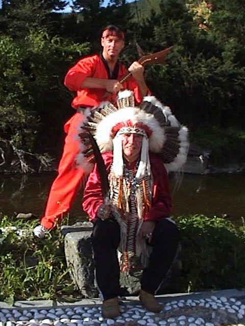 George Lépine (standing) with gunstock war club (see Okichitaw) and Vern Harper (seated) with Eagle feather